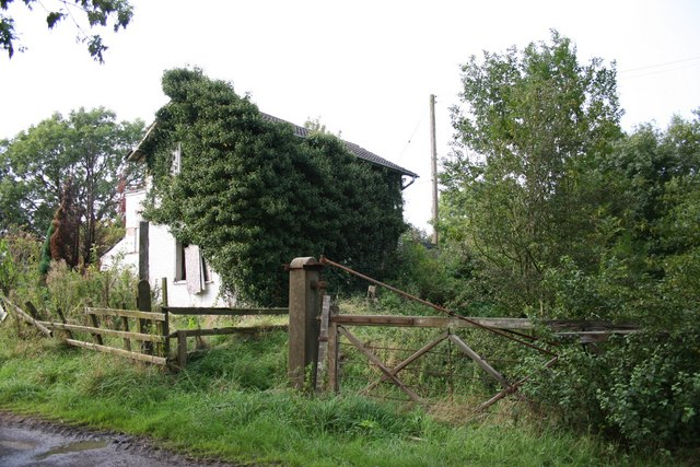 Derelict Station House. Long-since abandoned, overgrown and vandalised former crossing and station house at Grainsby Halt railway station.